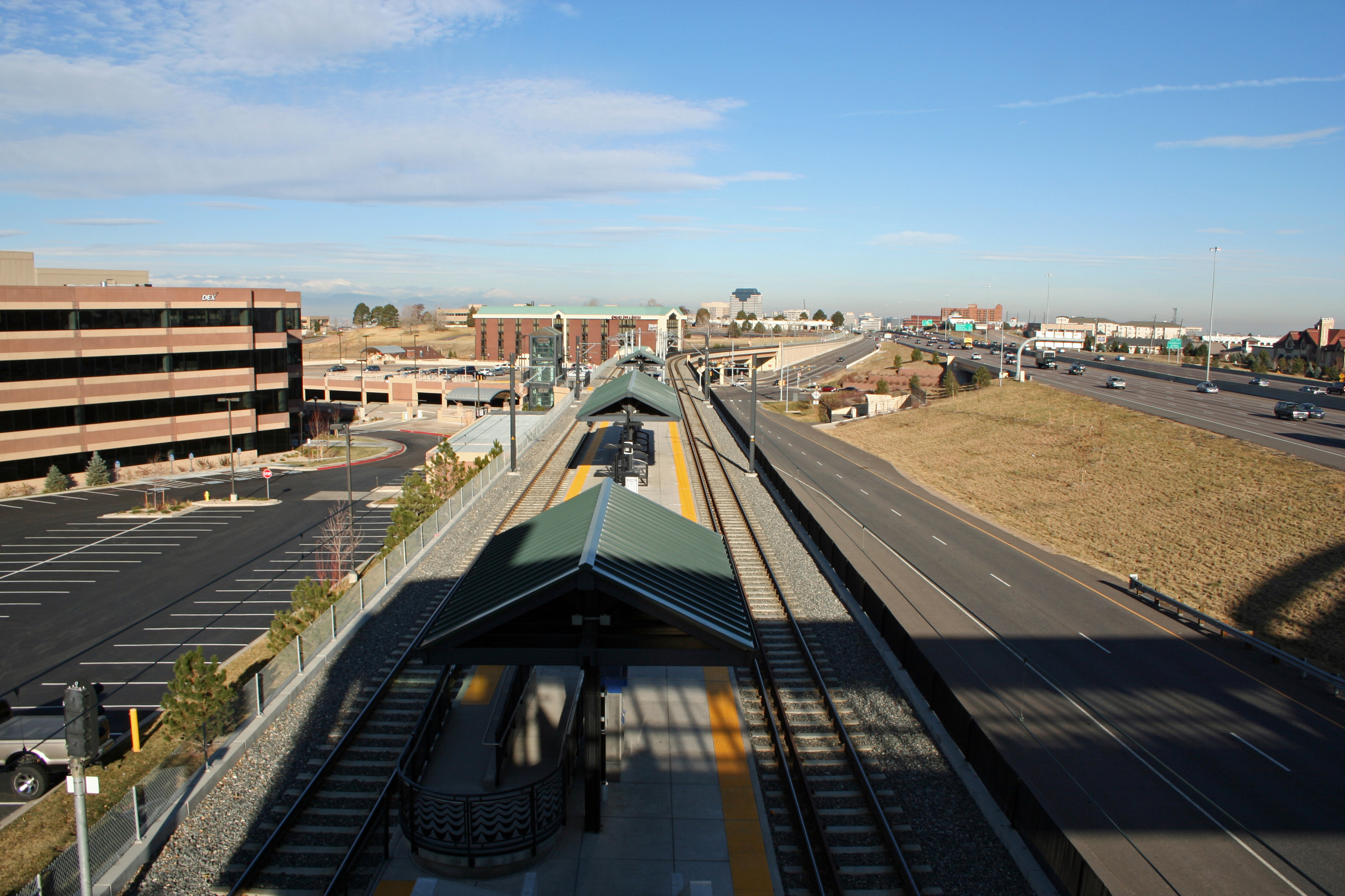 The Dry Creek RTD light rail station.